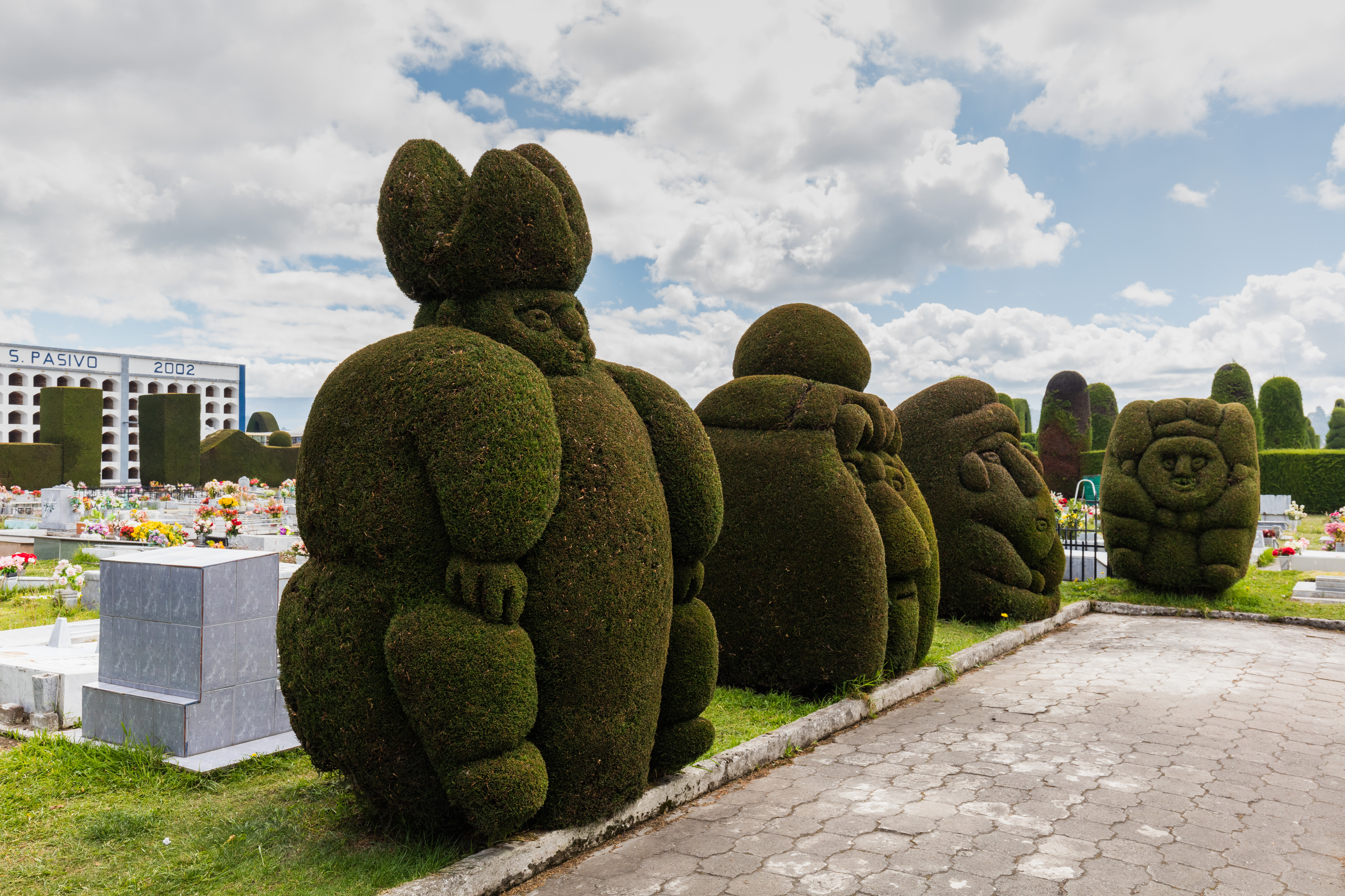 Cemetery, Tulcán, Ecuador